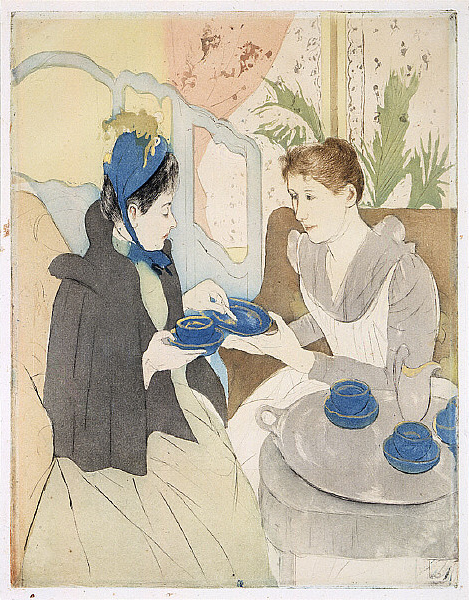 Afternoon Tea Party. Drypoint, color aquatint, and gold paint, 17 x 12 in. (43.2 x 30.5 cm) (sheet).